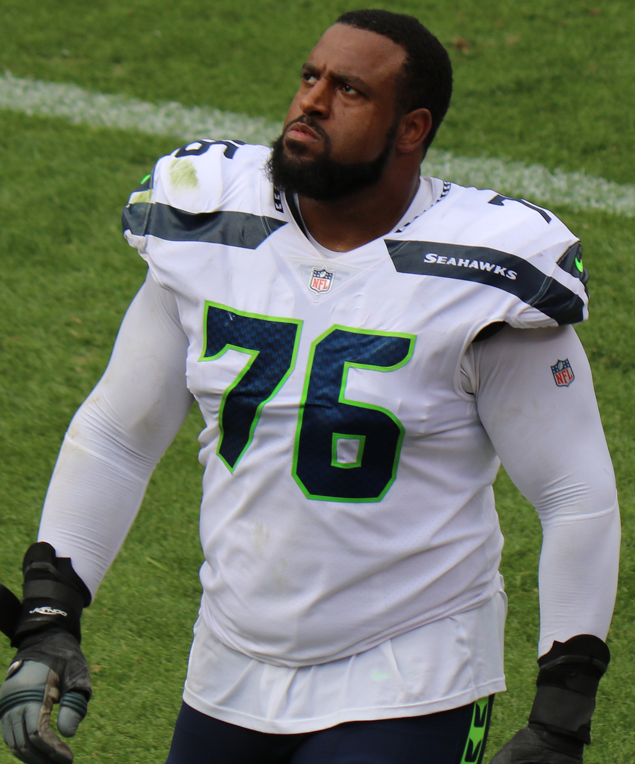 Duane Brown, a National Football League player.